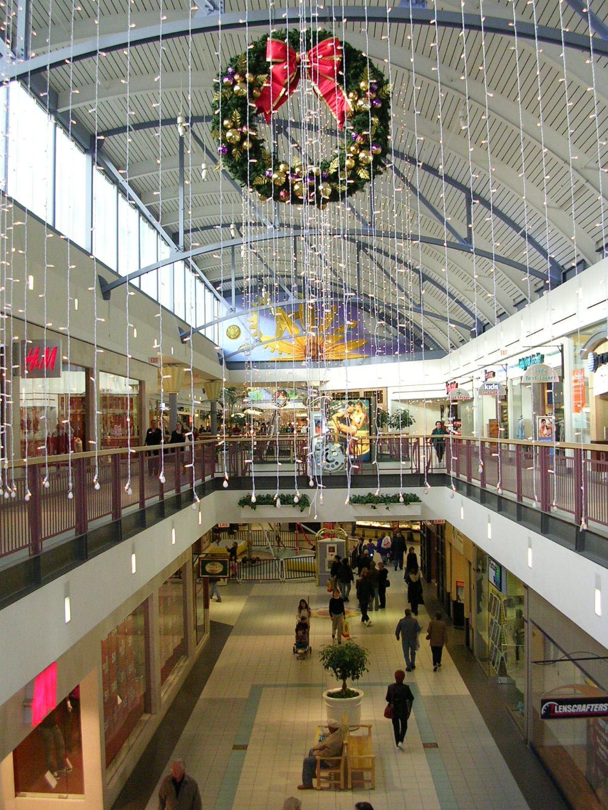 A corridor in the Brass Mill Center, decorated for the Christmas season.